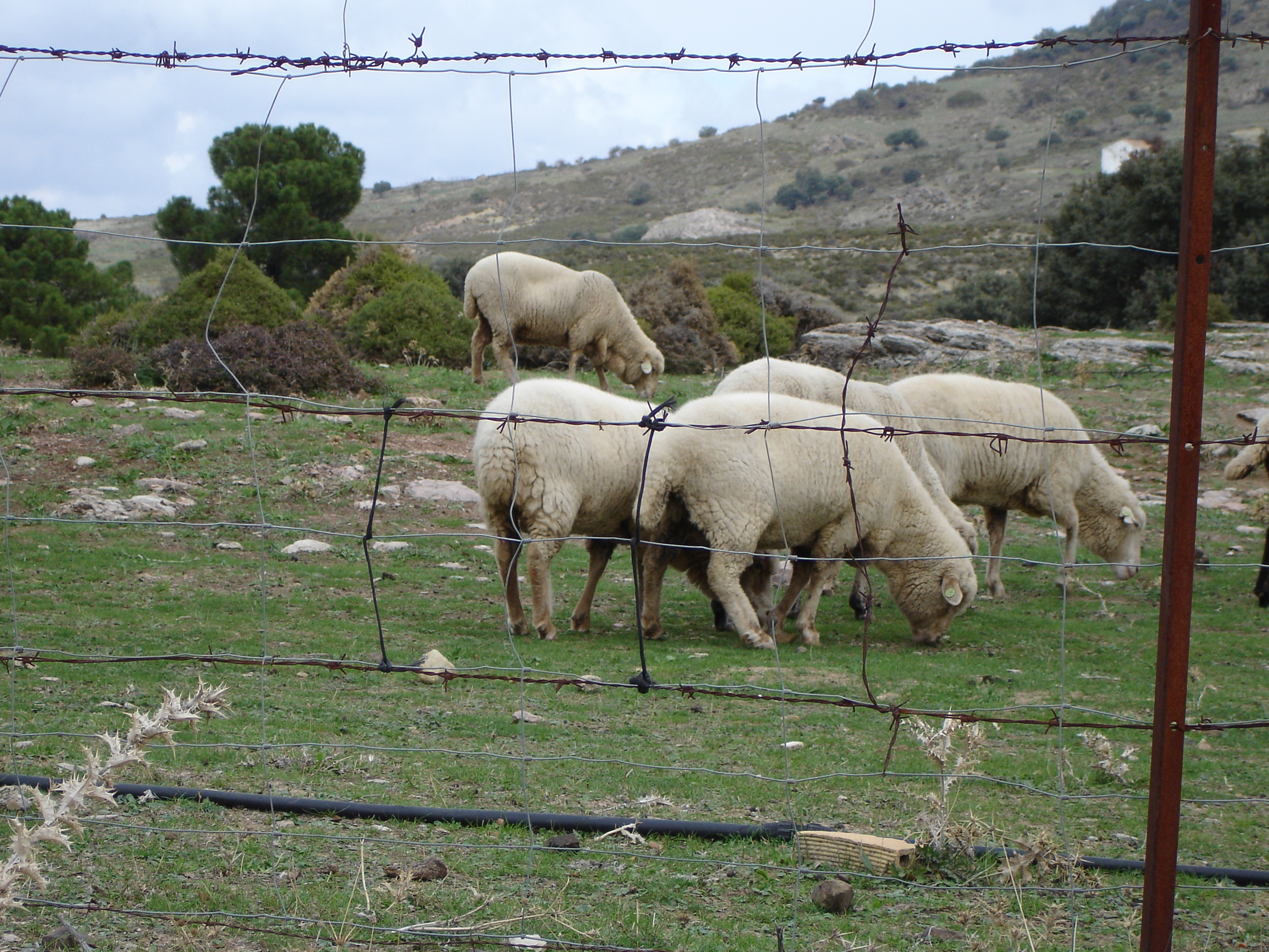 Domestic sheeps in Villaluenga del Rosario, Grazalema Natural Park (Andalusia, Spain)